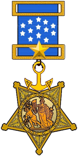 Depiction of the United States Department of the Navy Medal of Honor used from 1913 to 1942.